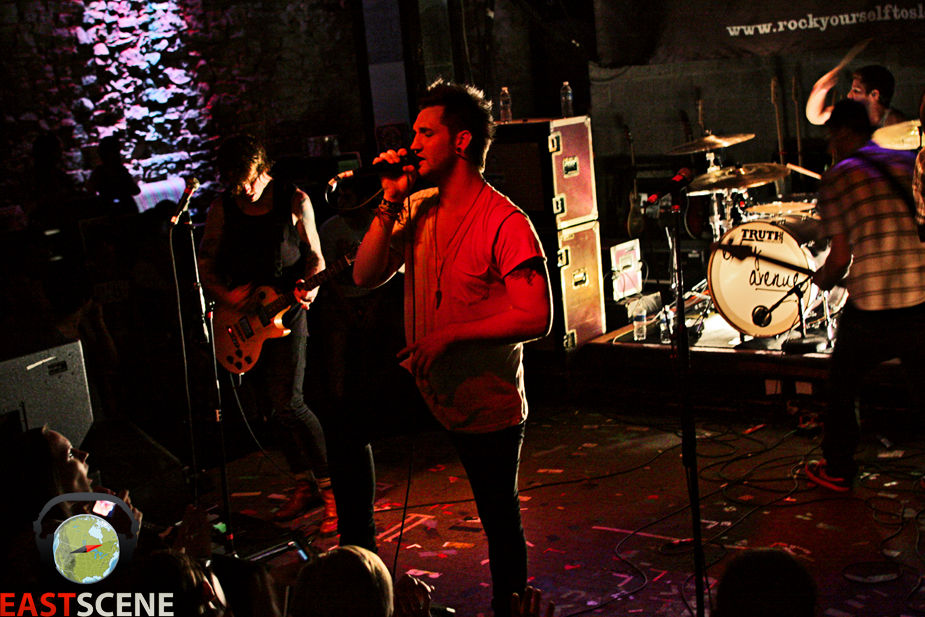 Photo by Mary Martin